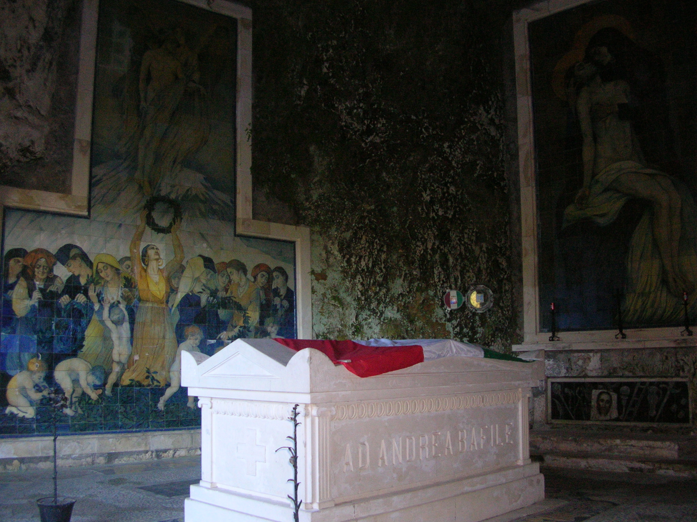 Inside the Monument, grave of Andrea Bafile, paintings of Basilio and Tommaso Cascella, locality Bocca di Valle